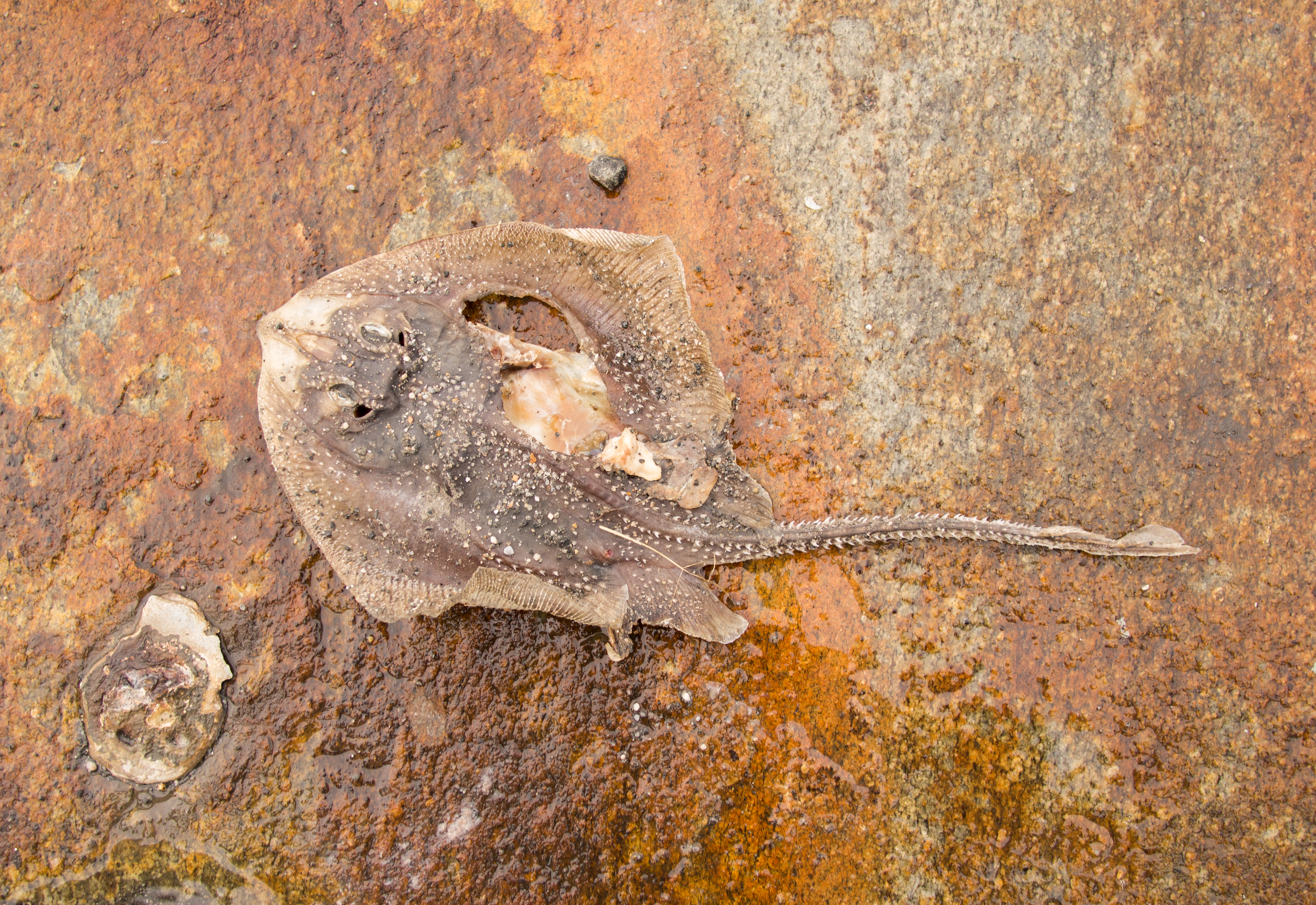 Remains of a little skate (Leucoraja erinacea) found on the Bay Ridge promenade. I suspect that either a bird dropped it here or someone caught it while fishing and didn't throw it back.